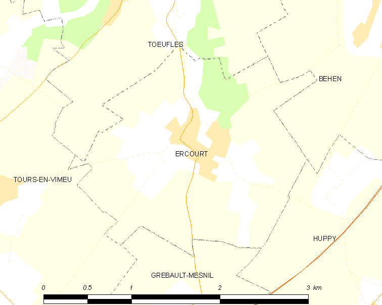 Map of French municipality Ercourt